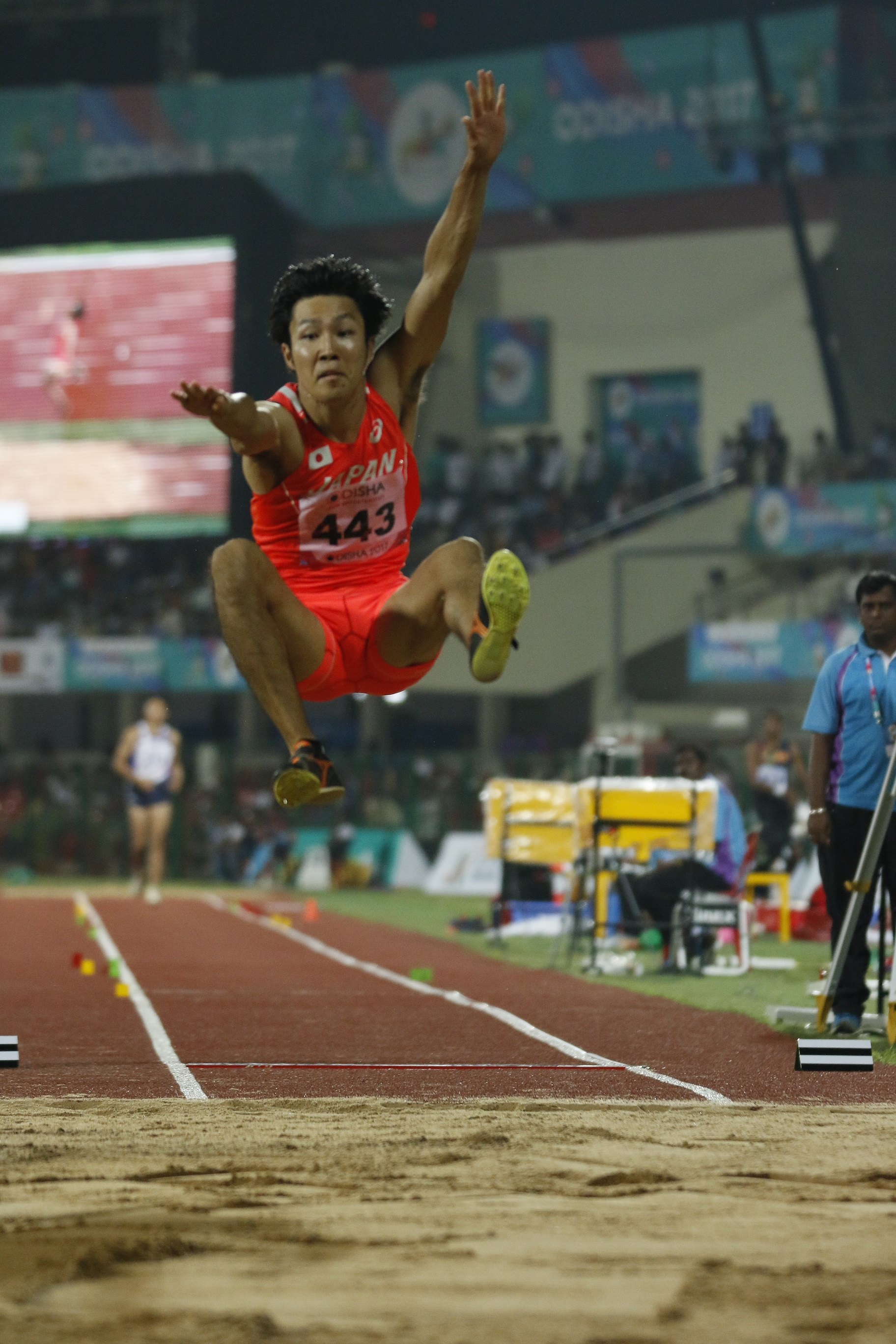 Athletes during 22nd Asian Athletics Championships in Bhubaneswar.